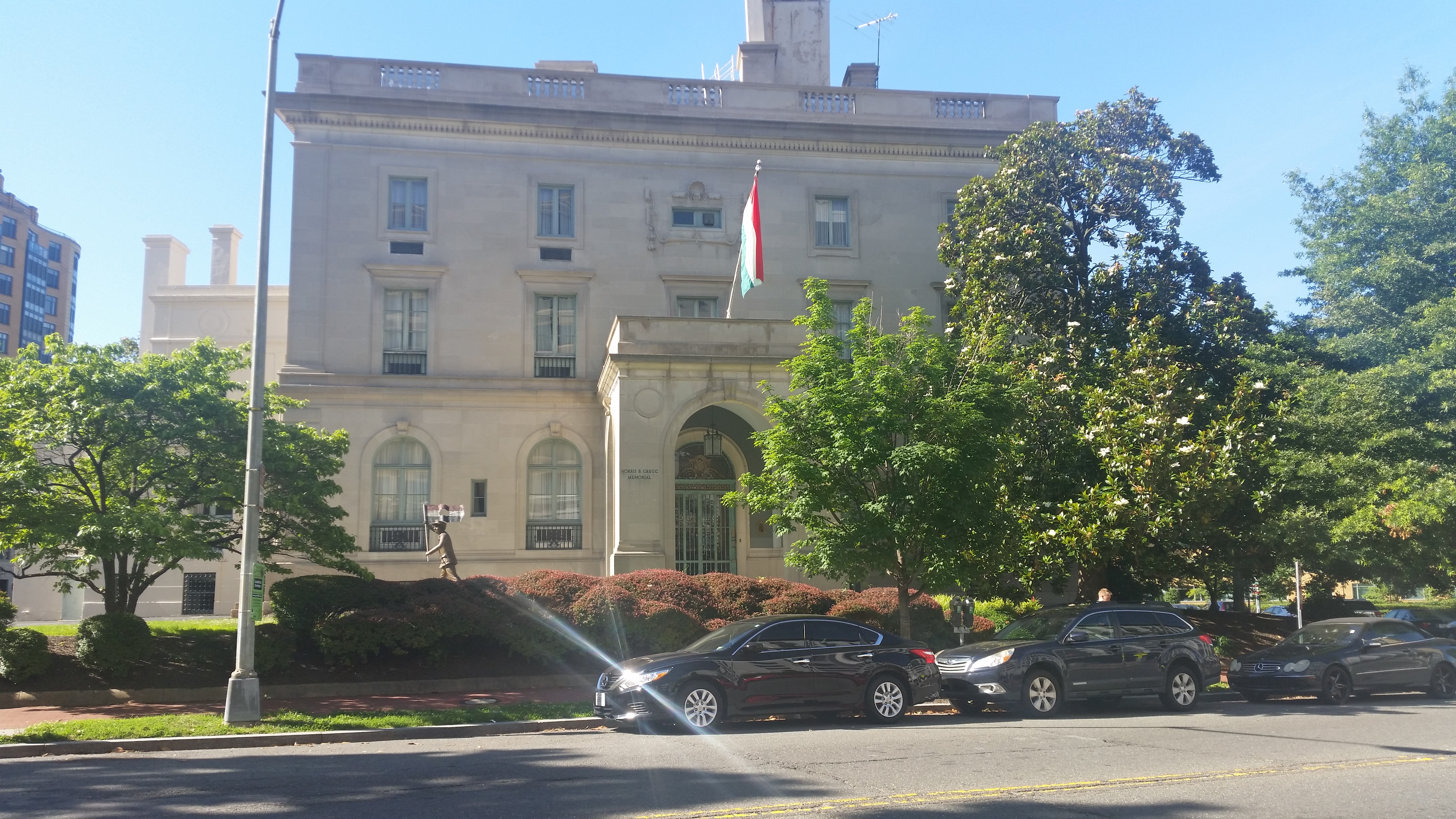 Embassy of Hungary located in the Brodhead-Bell-Morton Manson on Rhode Island Avenue NW